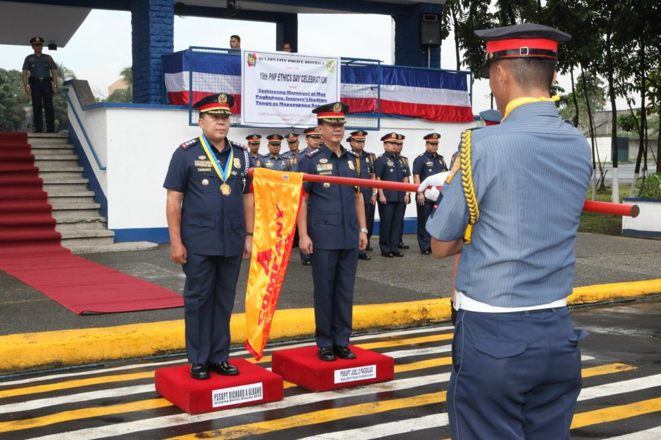 Incoming QCPD Chief PSSUPT Richard A Albano PNP is accorded arrival honors by QCPD Personnel.